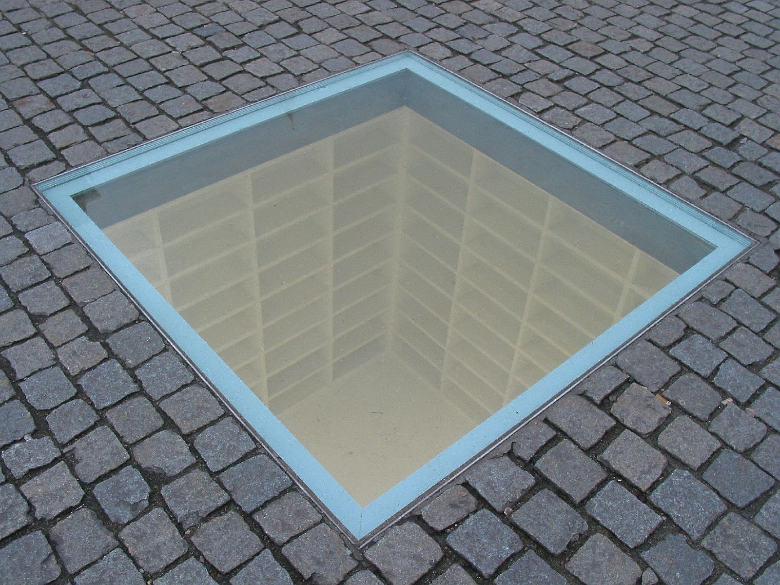 Micha Ullmans "Biblitohek" (1995)